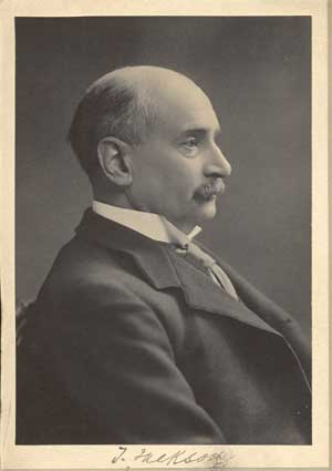 Thomas Jackson of the Hongkong Shangahi Banking Corporation